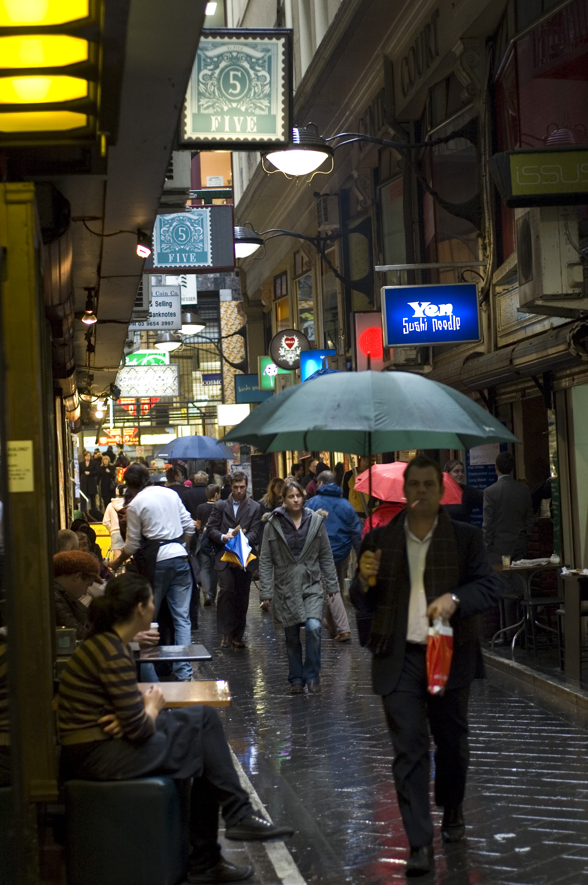 Centre Place, Melbourne looking north towards the arcade.